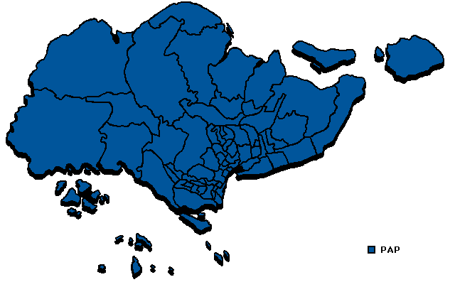 Results of the singaporean general election, 1972, by parliamentary constituency.